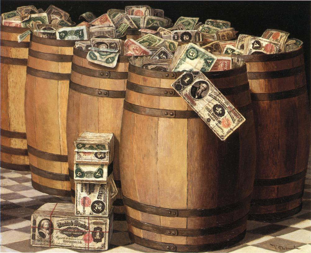 Barrels of Money, oil on canvas painting by Victor Dubreuil, c. 1897